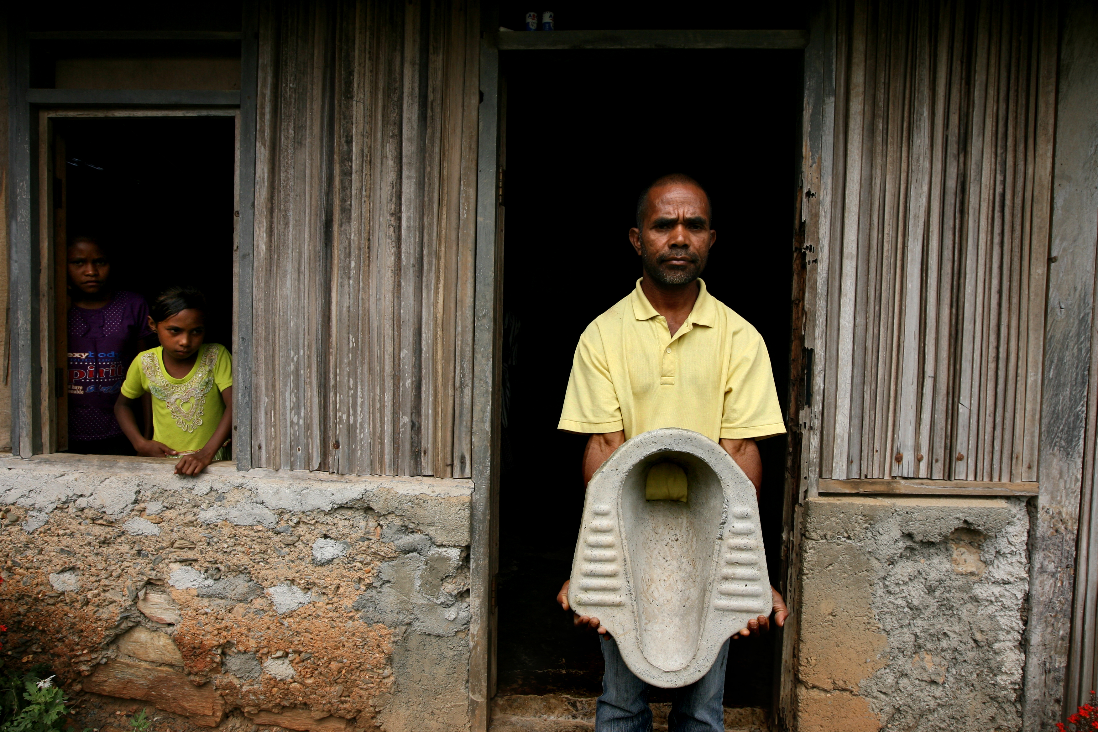 Father and local toilet salesman, Antonia dos Santos in his home village of Lisadila. Antonia creates concrete toilets with the use of a mould and sells them at the market place in Maubara and to neighbouring villages. On his patch he grows chillis, bananas and coffee and germinates plant stocks which he also use as a source of income. Antonia with ready made toilet. Photograph by Dean Sewell/Oculi/Agence Vu for WaterAid. Photograph taken on the 5th August 2010.